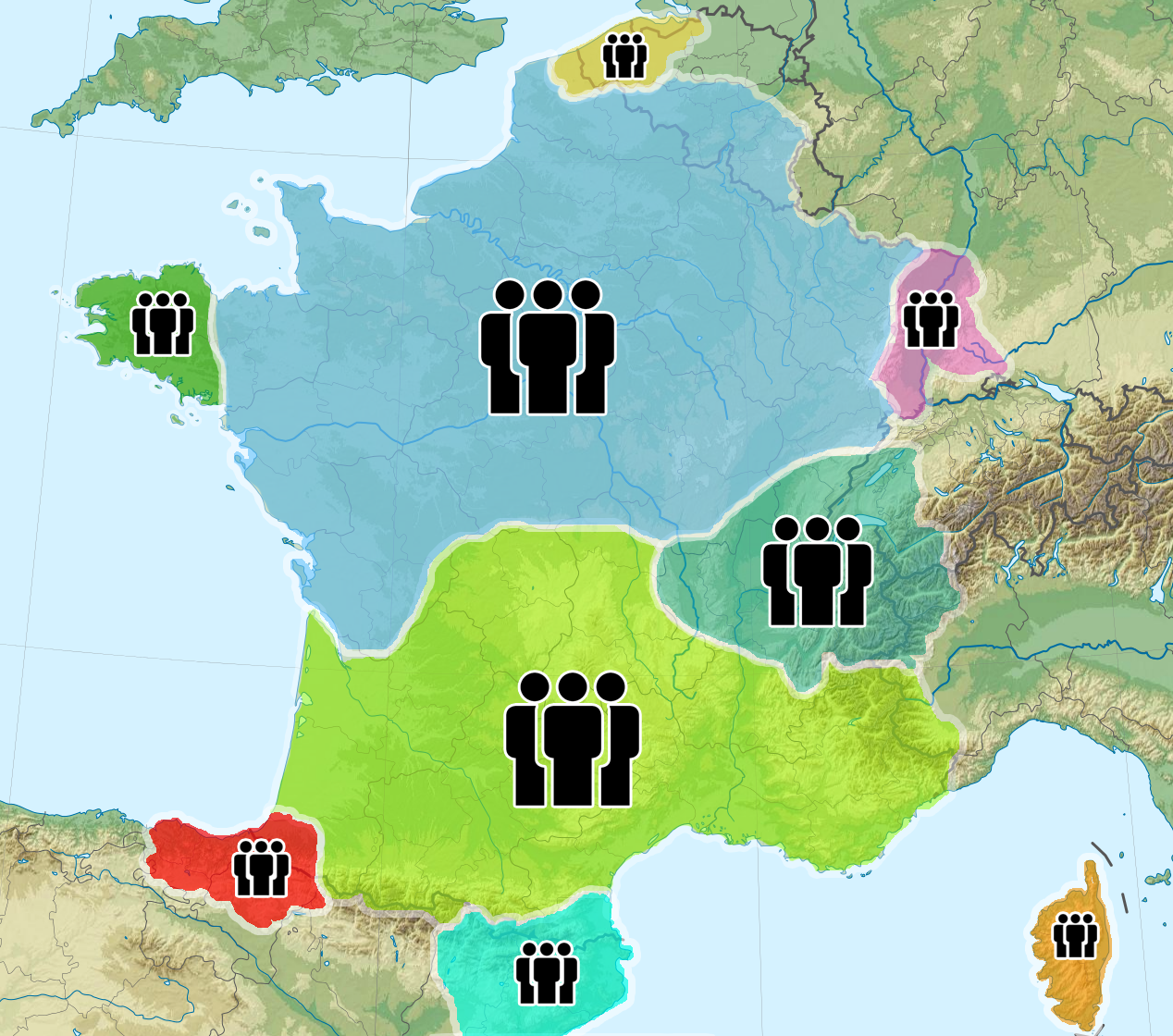 Map showing the ethno-linguistic groups in Metropolitan France: Alemannic Germans (Ditschers) Arpitans (Arpetans) Basques (Euskaldunak) Bretons (Bretoned) Catalans (Catalans) Corsicans (Corsi) Flemings (Vlamingen) Occitans (Occitans) Oïl dialect speakers (Locuteurs des dialectes d’oïl)